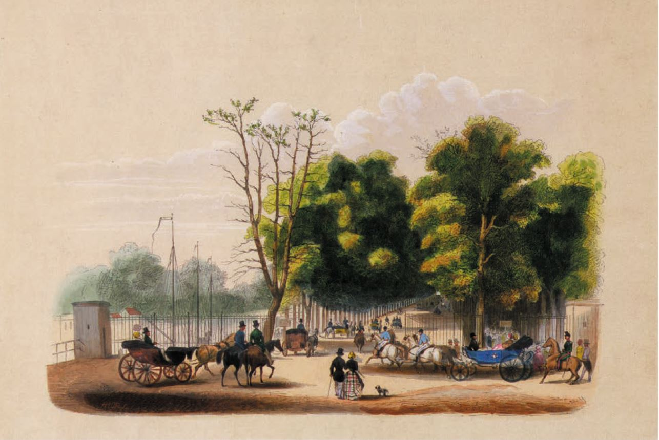 Anonymous litho of the entrance to the Groendreef, Brussels (Brussels City Archives). A printed copy mentions: L'Allée Verte en 1845. Dessin de Louis Huart, gravure de H. Mors.